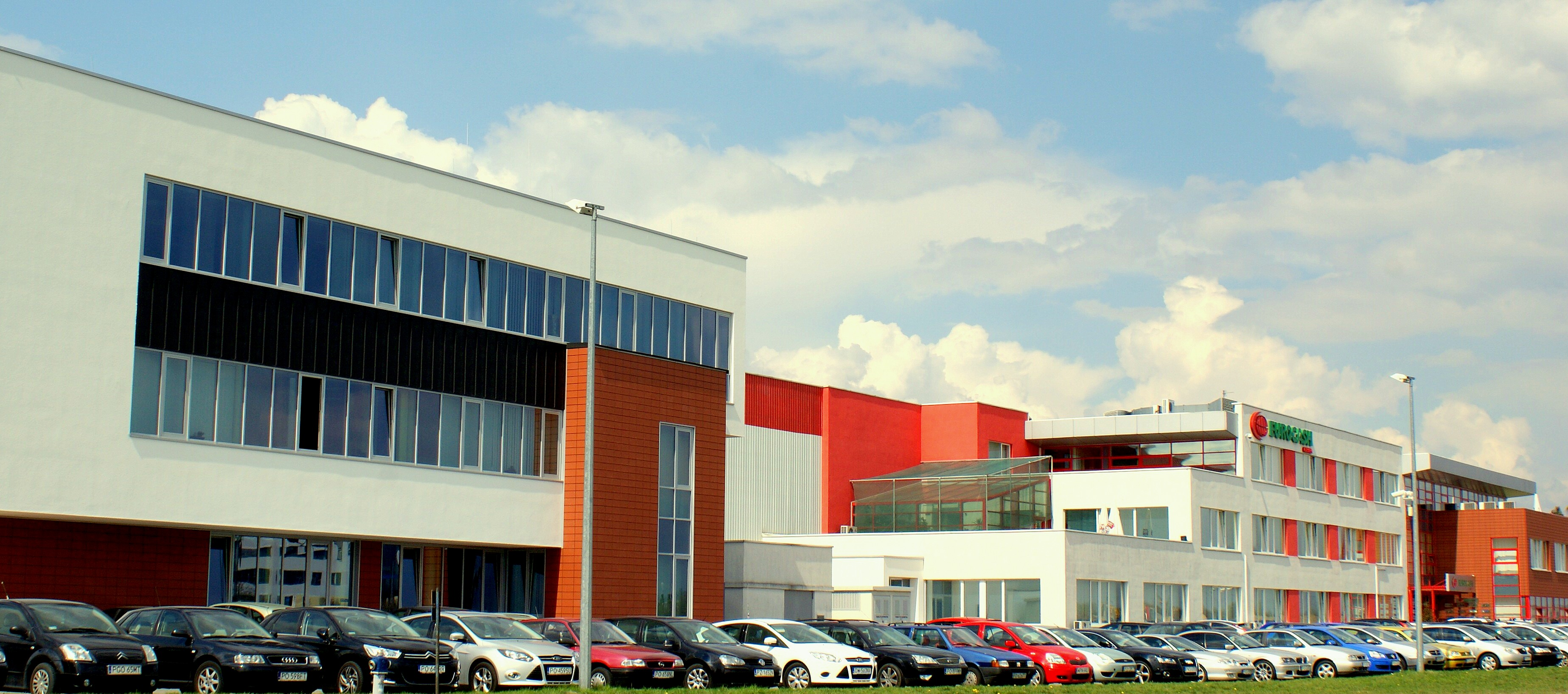 Eurocash Group Central Building in Komorniki